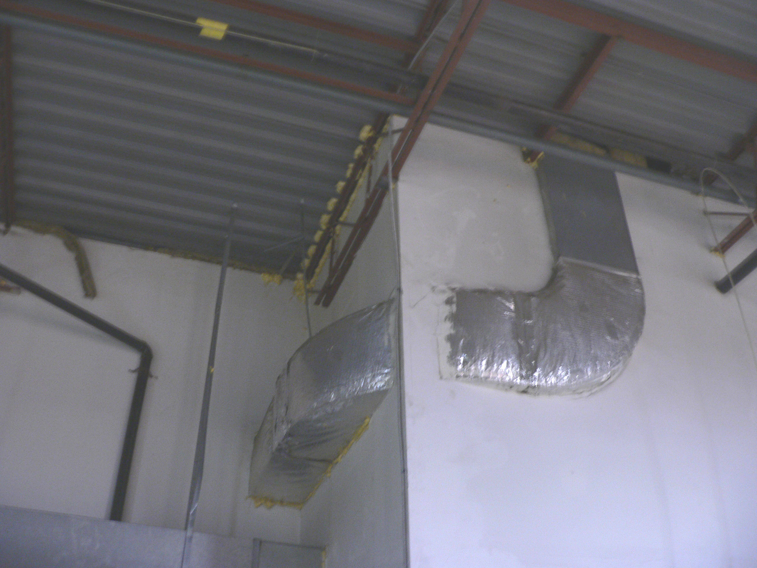 HVAC Ducting must have been there before the wall was built.